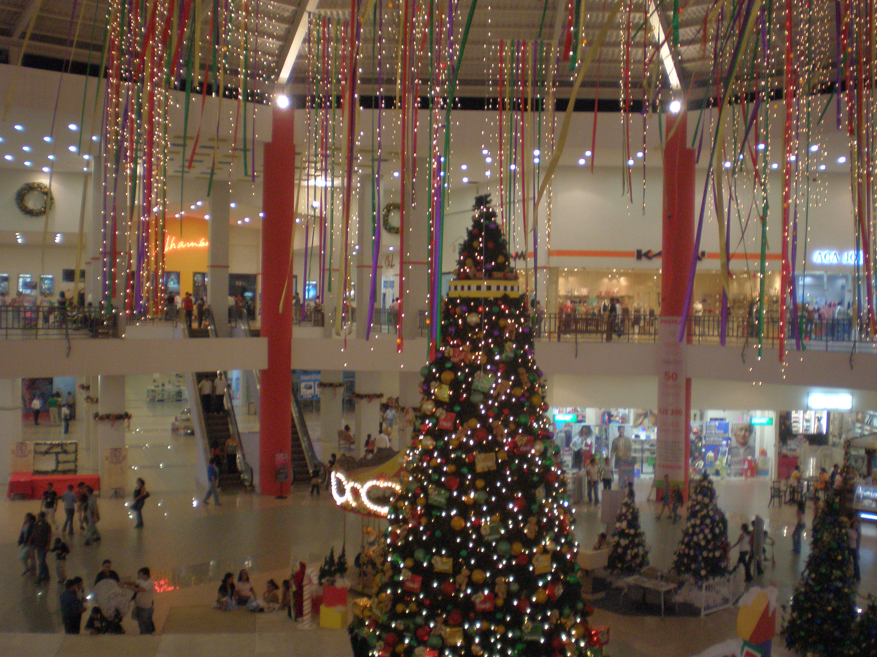 Multicentro Las Americas in Managua